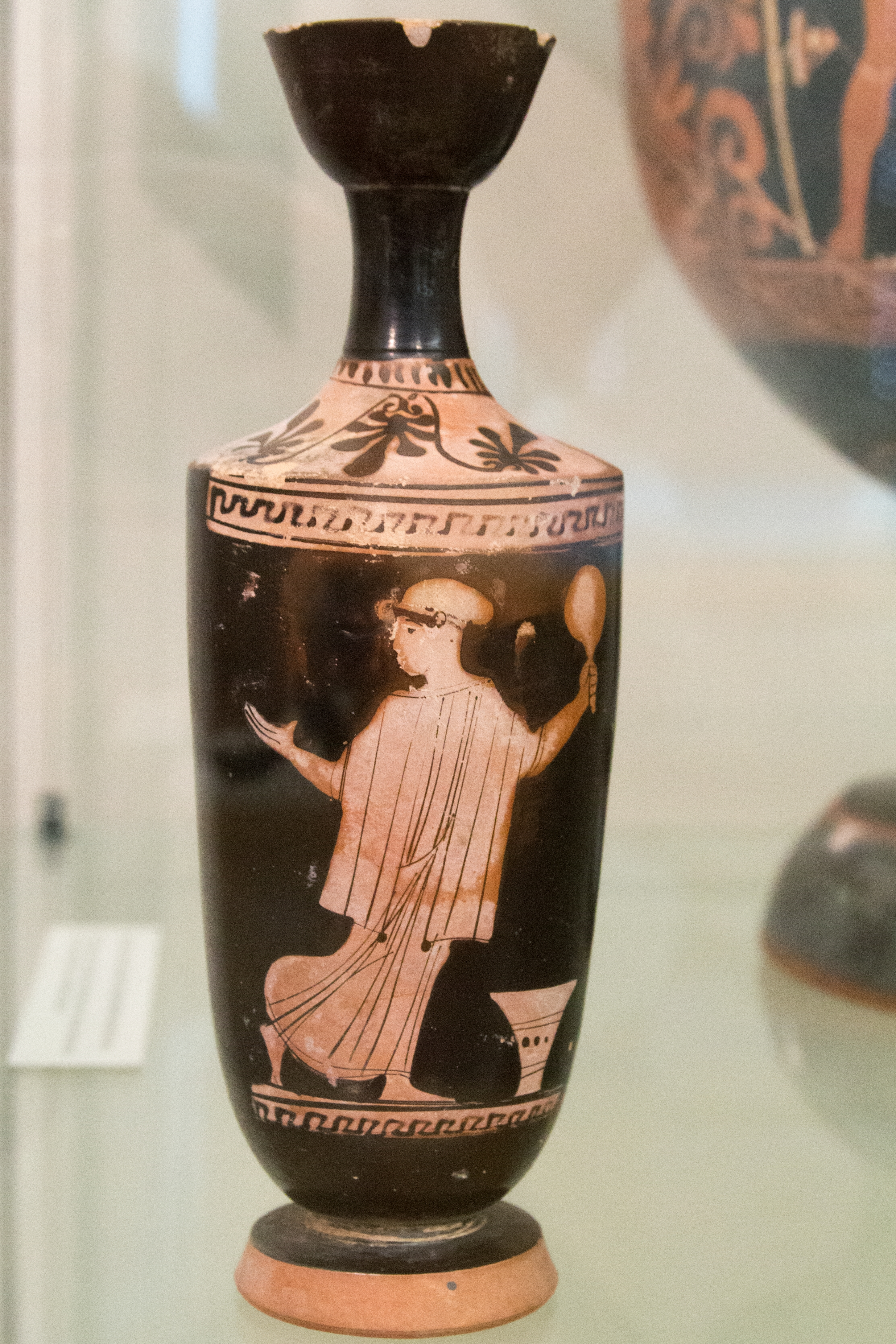 Red-figure lekythos. Woman holding a mirror. Athens 470-460 BC. NG Prague, on loan from the National Museum in Prague, H10 774.